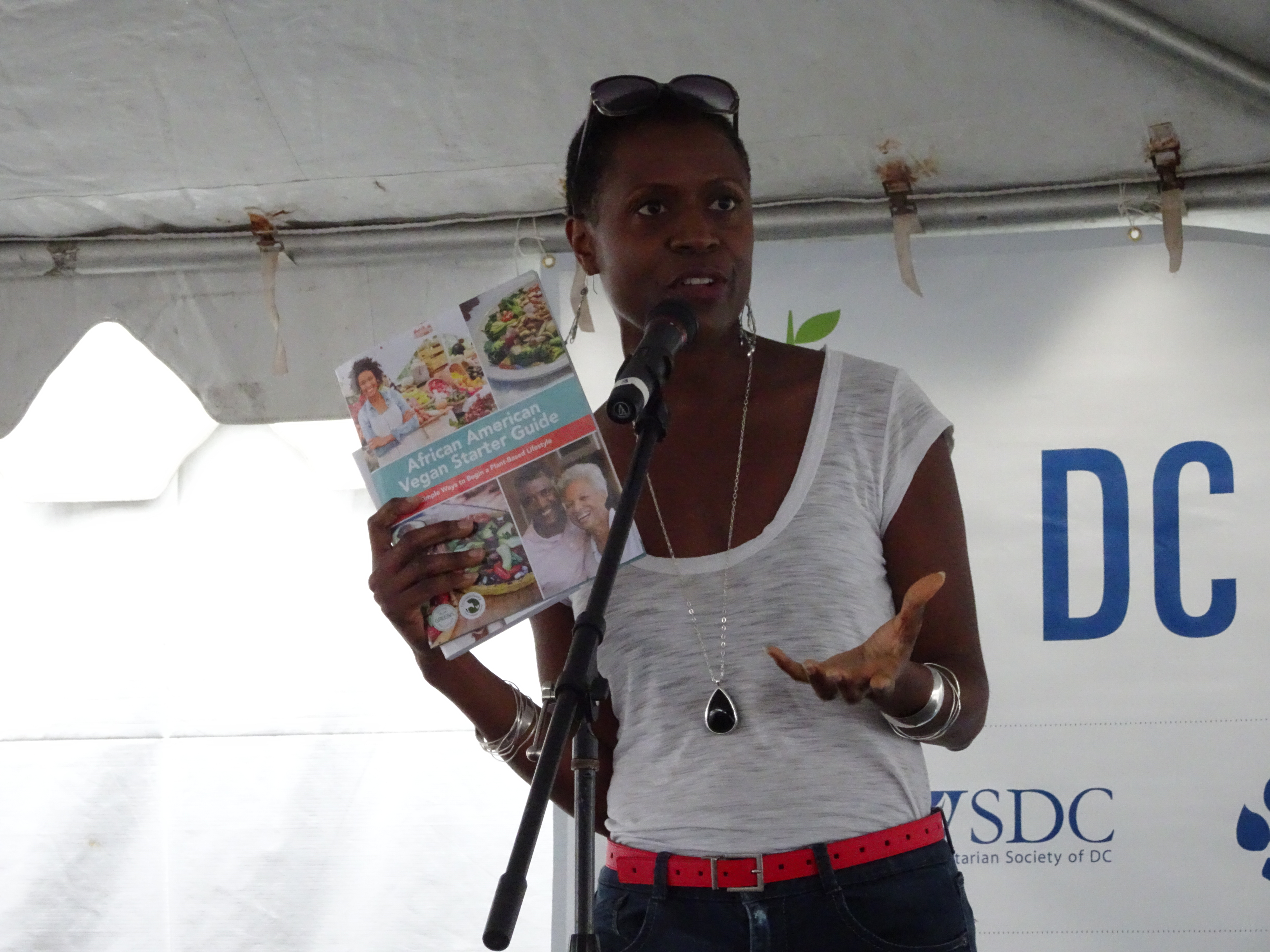 Tracye McQuirter - public health nutritionist, 30-year vegan and national best-selling author, created the African American Vegan Starter Guide in partnership with Farm Sanctuary